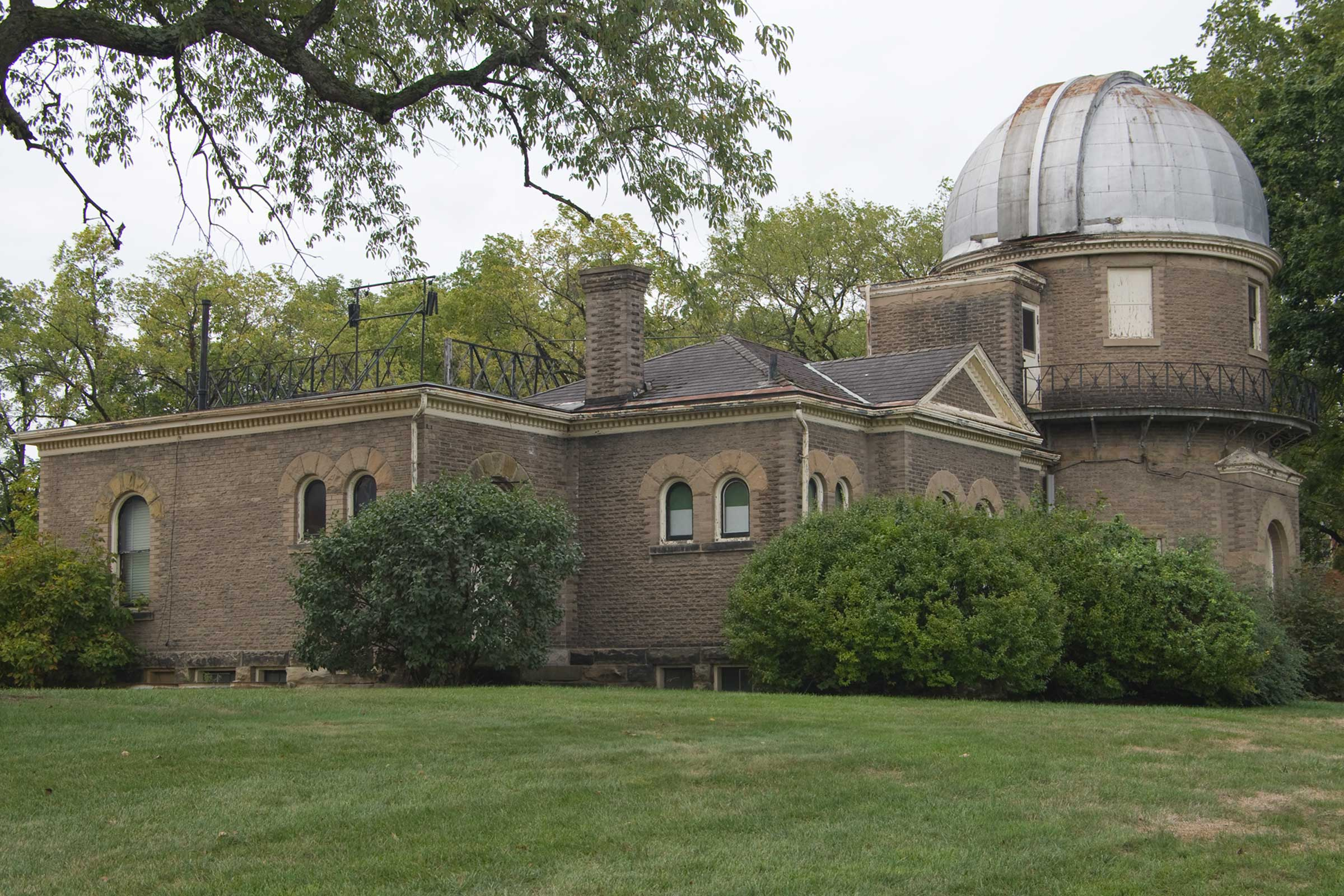 Ohio Wesleyan University Student Observatory. West William Street in Delaware OH 43015 No longer in use, see Perkins Observatory